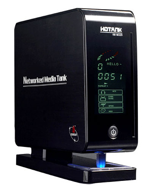 MediaTank Egreat EG-M32B